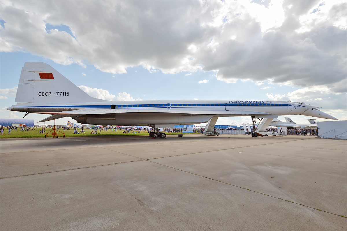 Aeroflot, CCCP-77115, Tu-144D